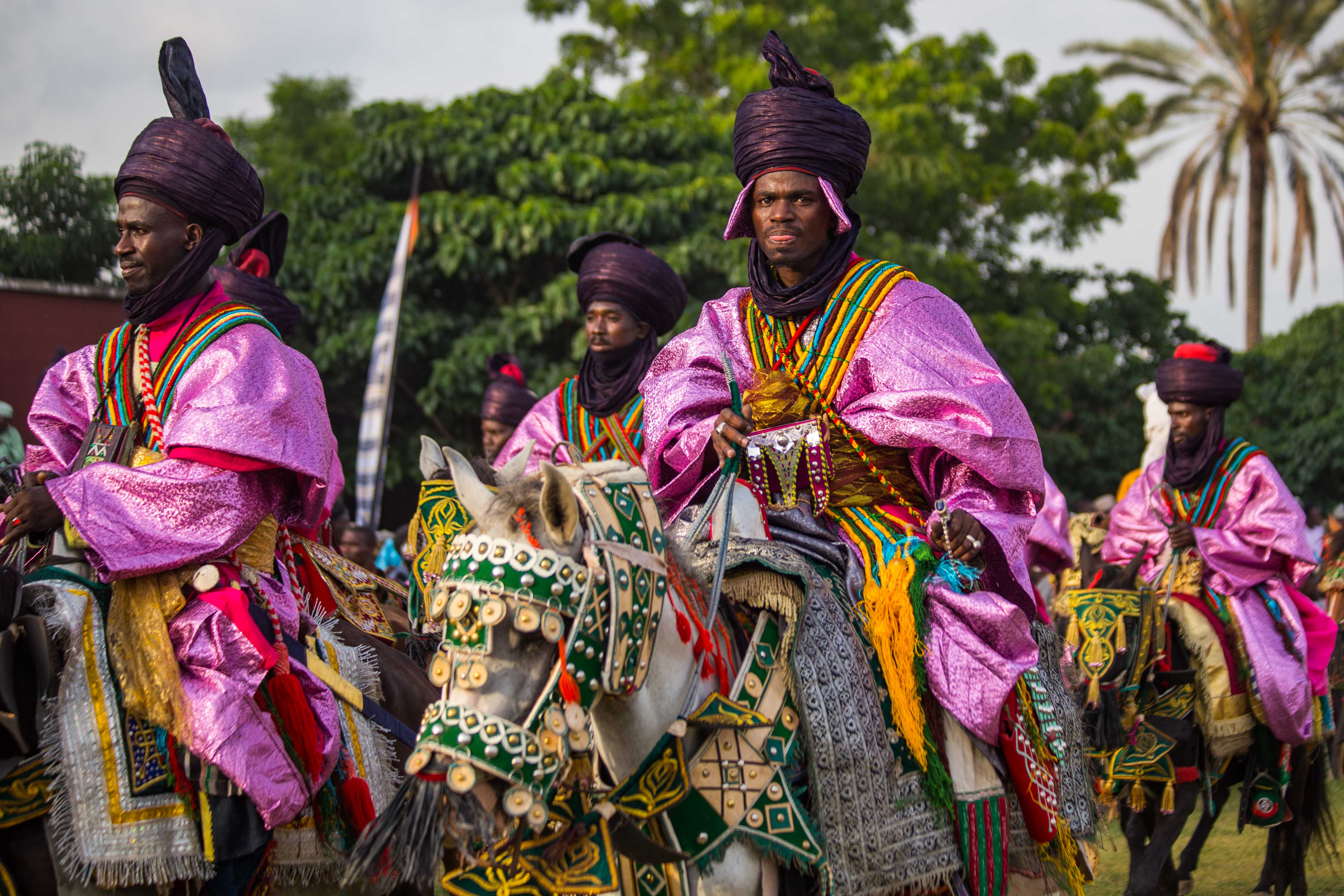 Traditional Horse Rider from Northern Nigeria This is an image of "African people at work" from Nigeria